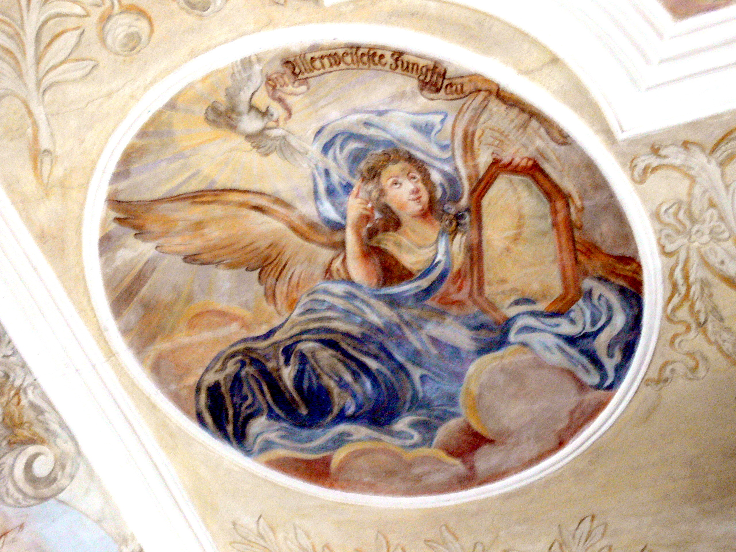 Our Lady´s chapel in Altenmarkt. Fresco illustrating the Lauretan litany "You most wise Virgin".